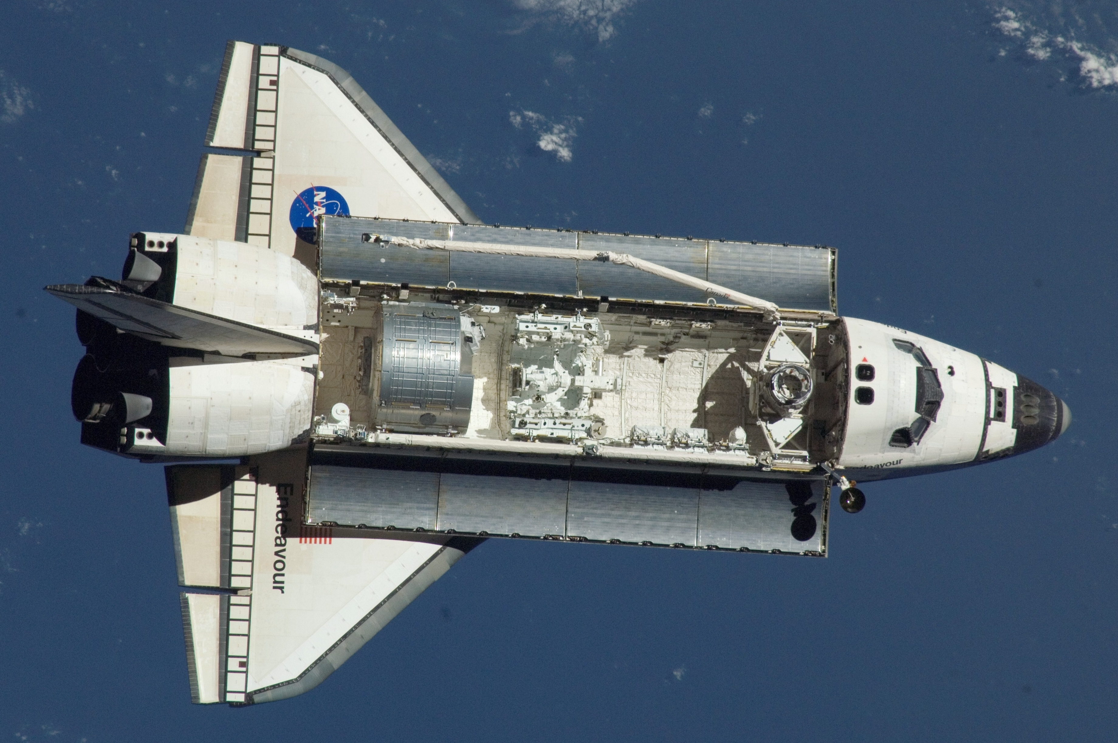 Backdropped by a blue and white Earth, Space Shuttle Endeavour approaches the International Space Station during STS-123 rendezvous and docking operations. Docking occurred at 10:49 p.m. (CDT) on March 12, 2008. The Canadian-built Dextre robotic system and the logistics module for the Japanese Kibo laboratory are visible in Endeavour's cargo bay.